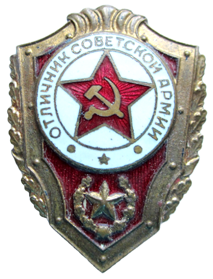 Badge Achiever of the Soviet Army